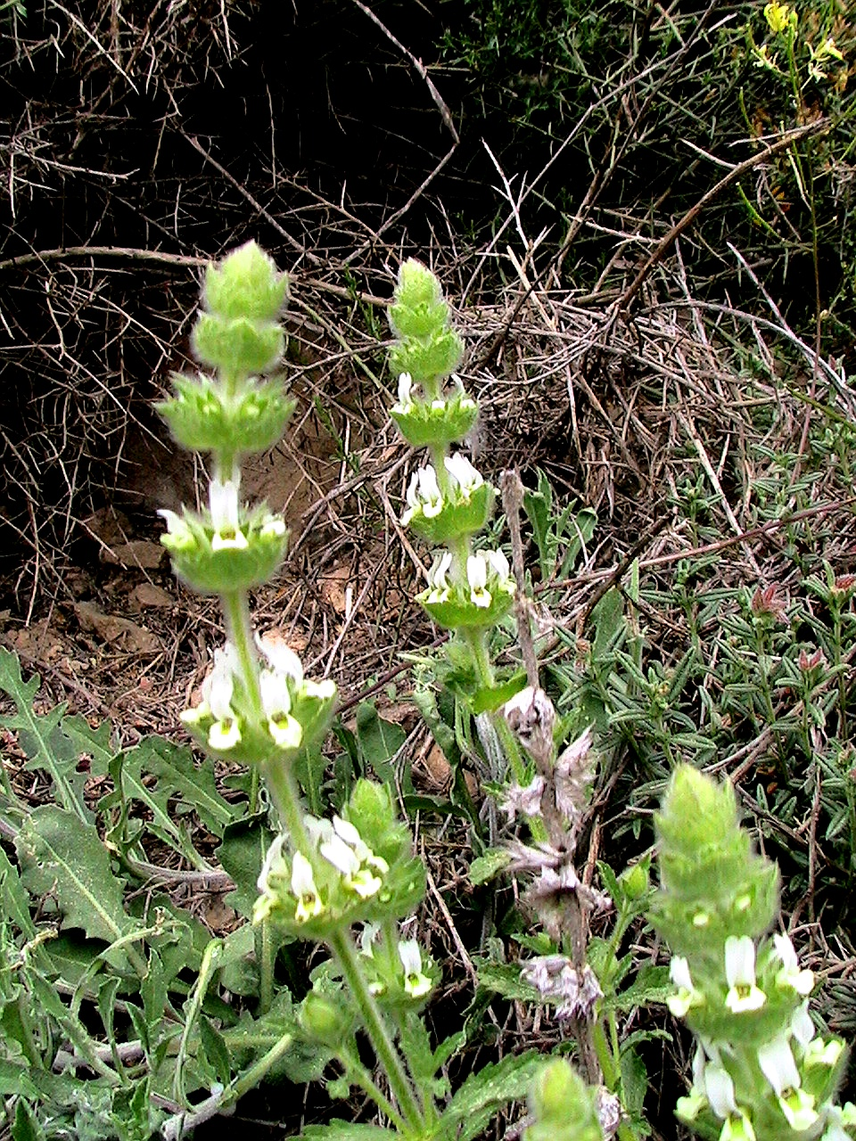 Sideritis hirsuta. In Torà (Segarra-Catalunya). To 570 m. altitude